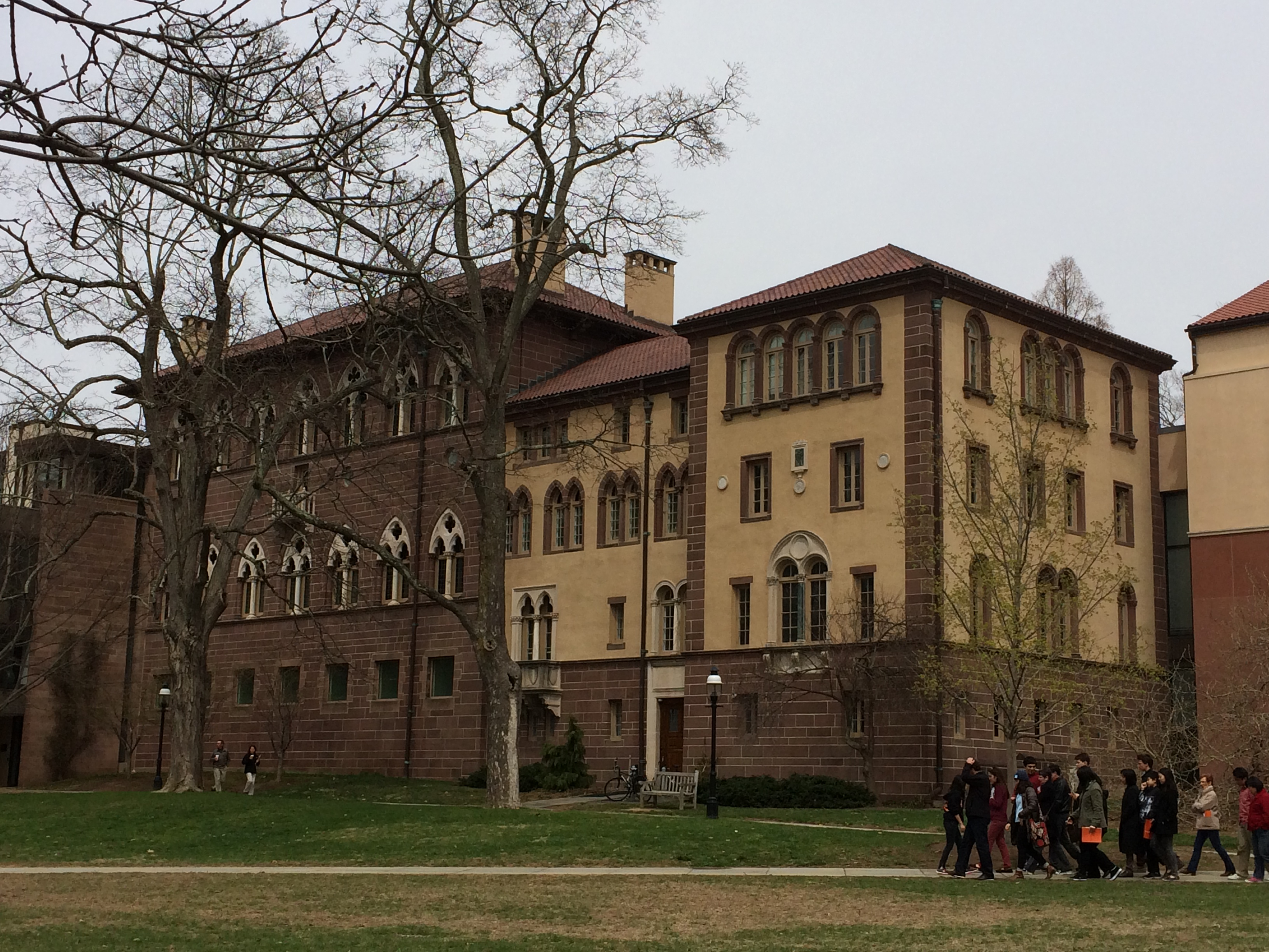 Princeton University Art Museum Side View